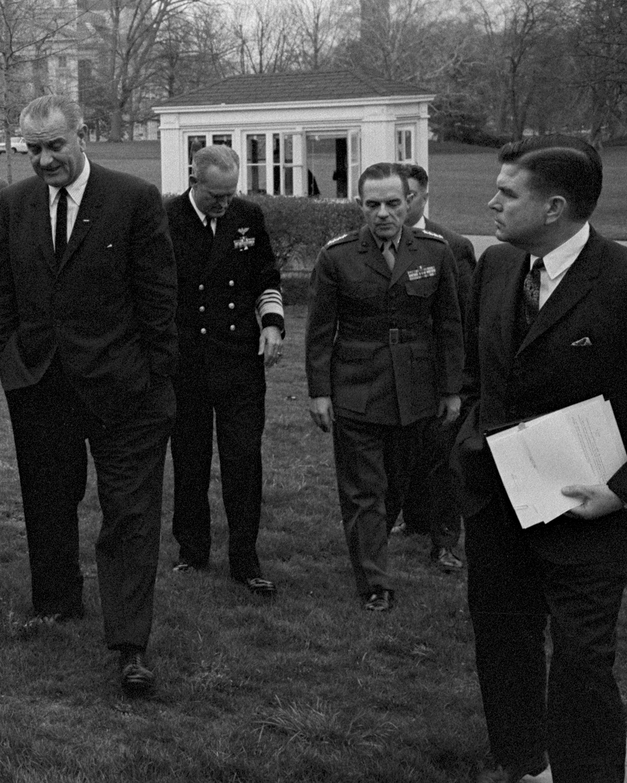 W. Marvin Watson (right), White House Chief of Staff, with President Lyndon B. Johnson (left)